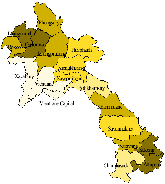 Since the addition of the new province in end of 2013. This is the new updated map of Laos provinces.